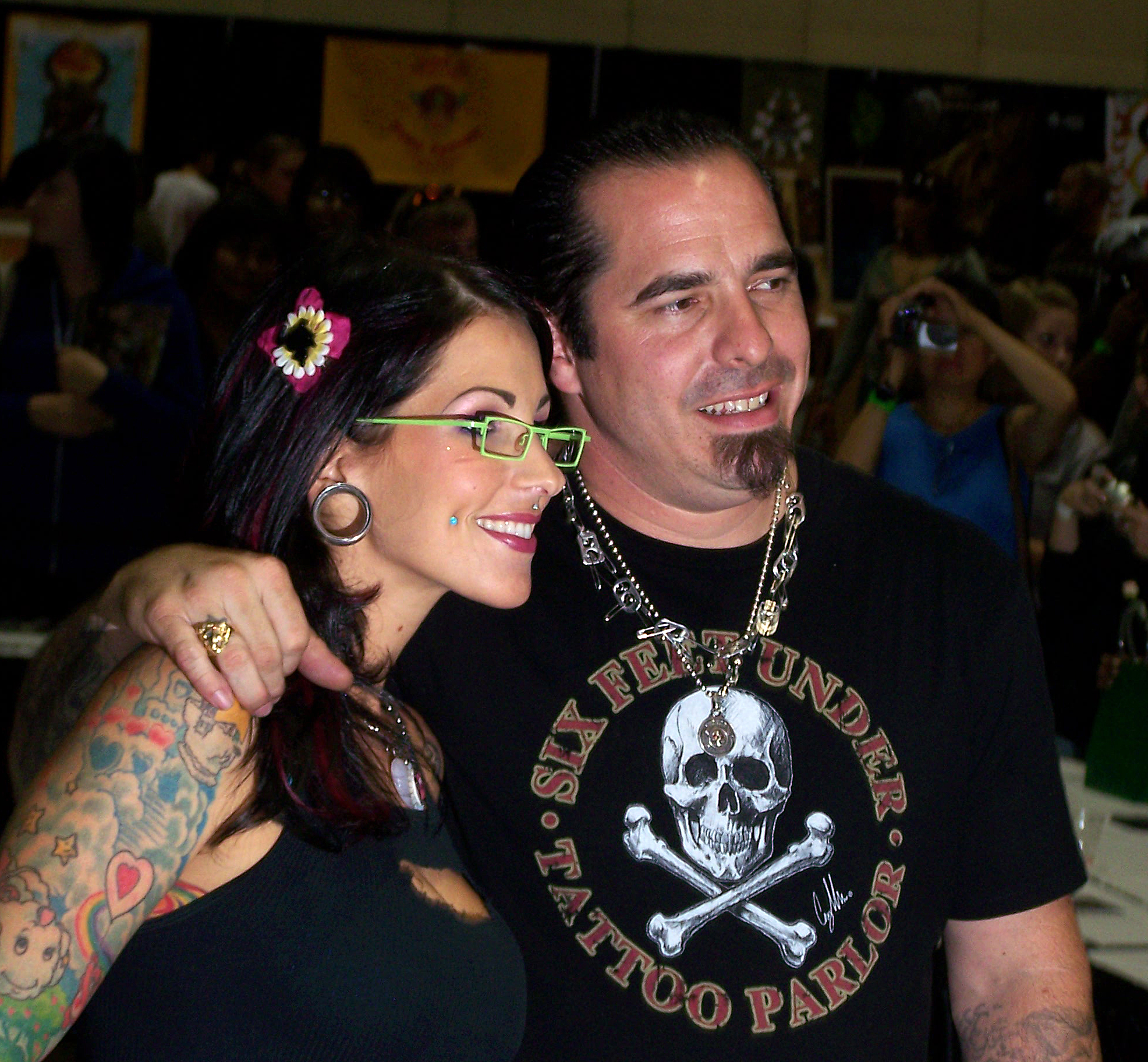 Pixie Acia (left) and Corey Miller at the 2007 Calgary Tattoo & Arts Festival held in Calgary, Alberta, Canada.